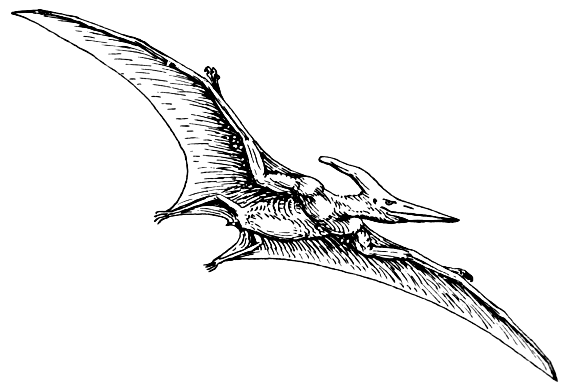 Line art drawing of Pteranodon.